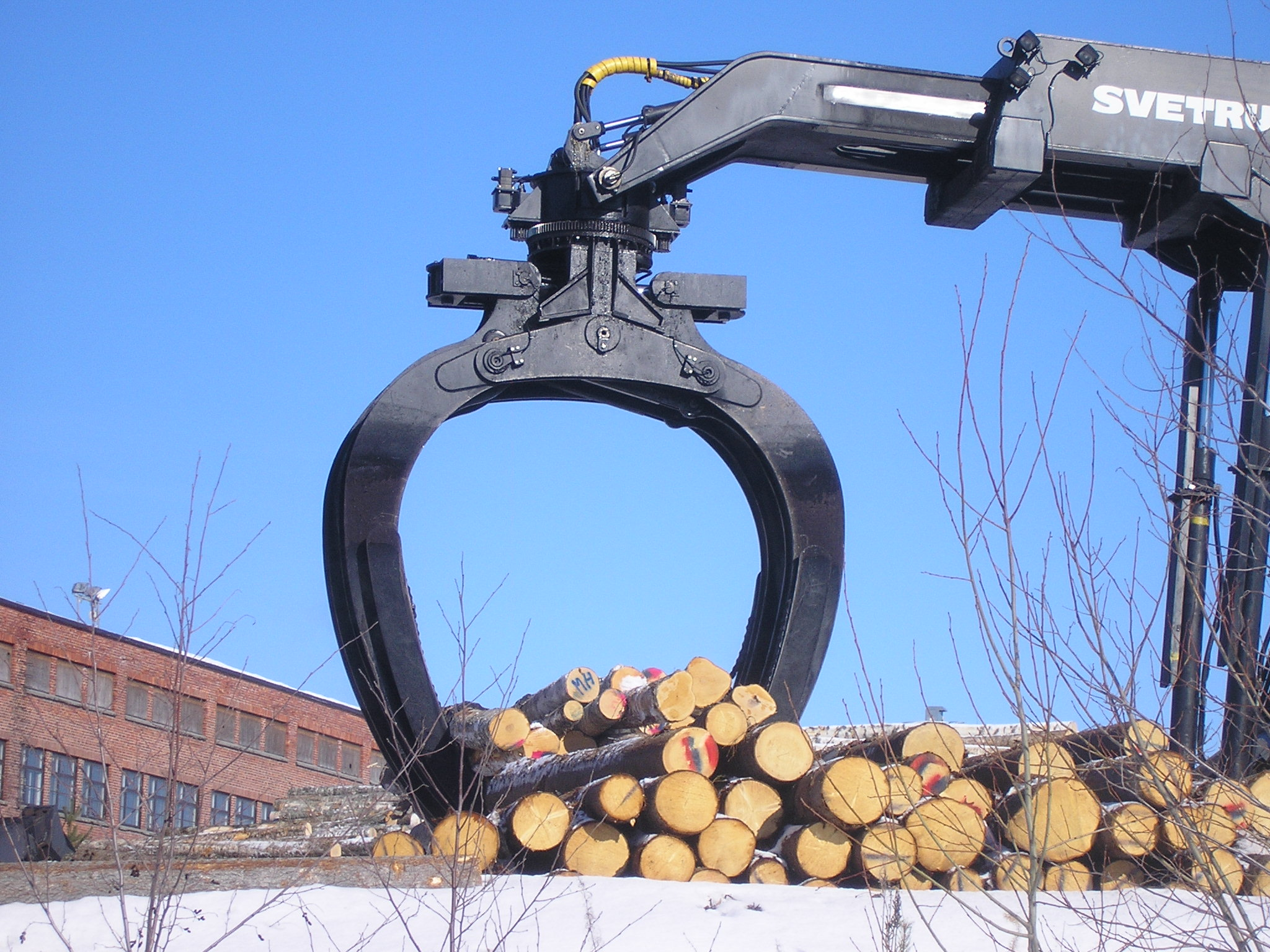 Svetruck logstacker at Säynätsalo plywood mill in Finland